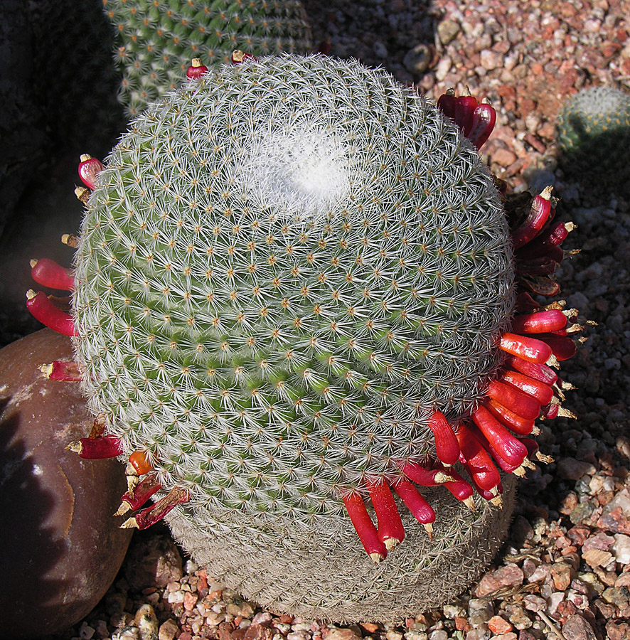 Native to the Oaxaca area of Mexico. Jardin Botanico Chirau Mita, Chilecito, Argentina.